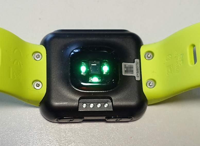 Garmin Forerunner 35 watch, back side. The heart rate sensor is visible with green light.